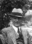 Norman Trevor, former Norman Pritchard, Athlet at the 1900 Olympic Games and actor in Hollywood photography, adapted reproduction, no restrictions on use